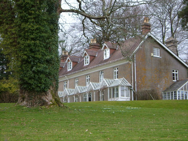 Spitchwick Manor. A Victorian house, seen here from the east.